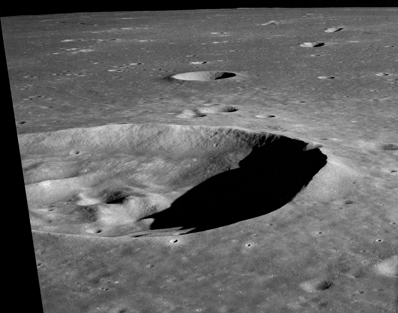 Oblique view of part of Maskelyne, on the moon. Facing northwest.